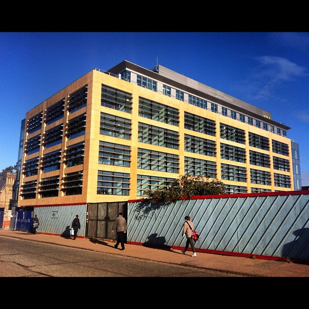 Microsoft Research's soon-to-open fancy new home in central Cambridge.